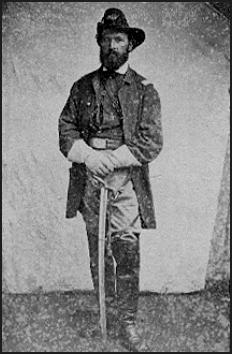 photo of Edward P. Chapin